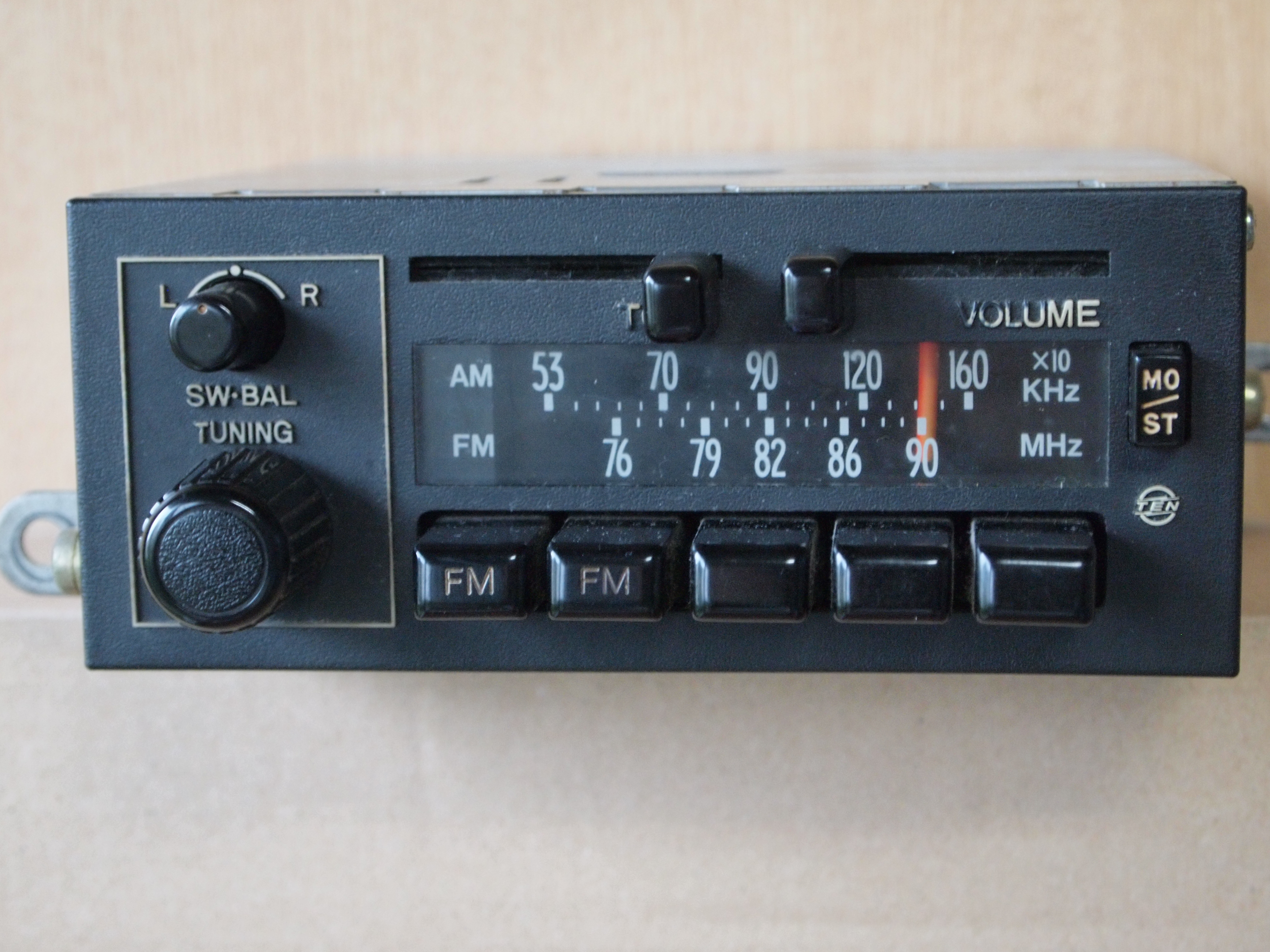 Typical car radio of analog era. For Toyota's car, made by Fujitsu Ten.